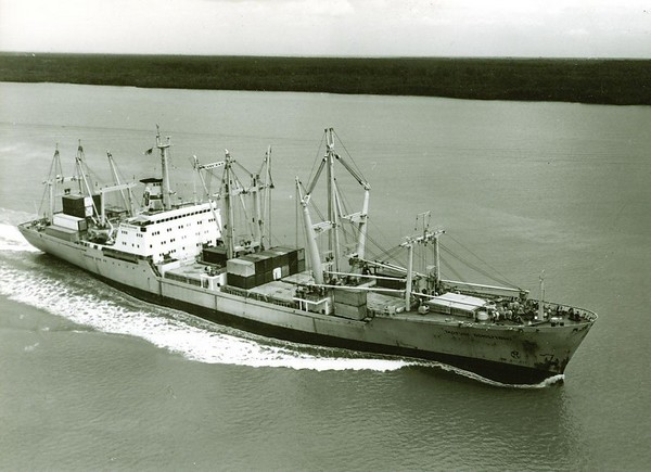 MS Tadeusz Ocioszyński; built 1975 in Gdańsk; L 161; DWT 11812; speed 21kn; Polish Ocean Lines; Gdynia.